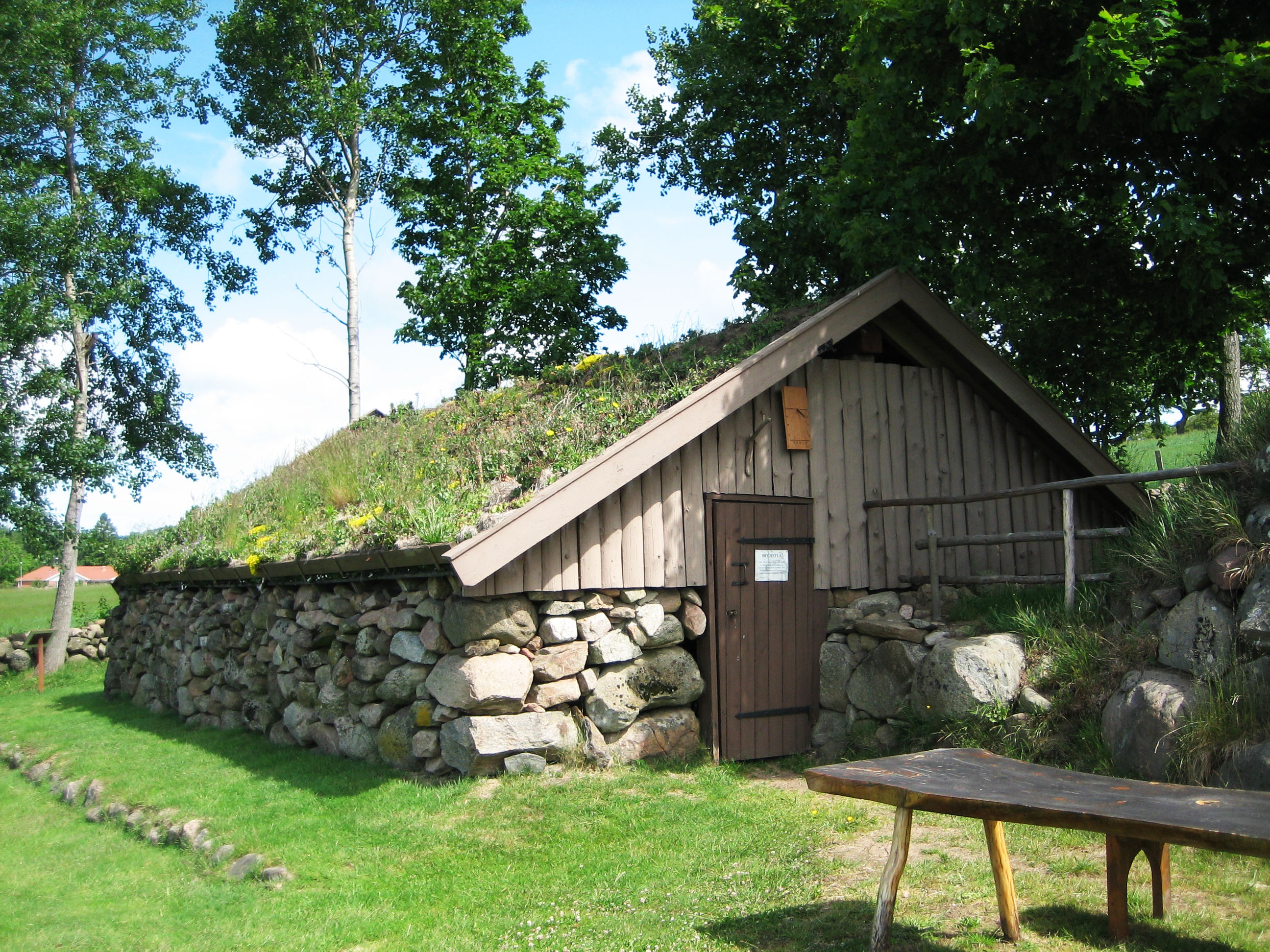 A swedish "linbasta" (en: Flax House, de: Flachs-sauna) in Förslöv, Skåne. Photo by the uploader.